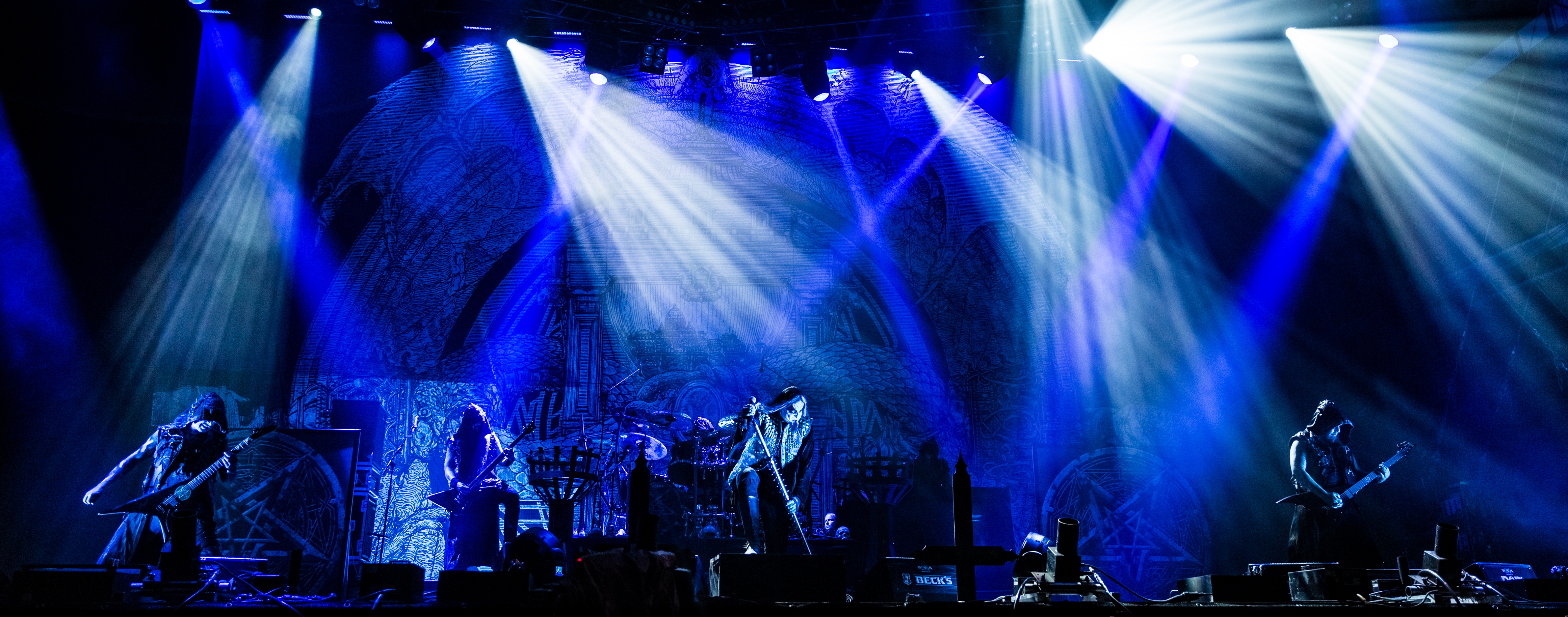 Dimmu Borgir - Wacken Open Air 2018